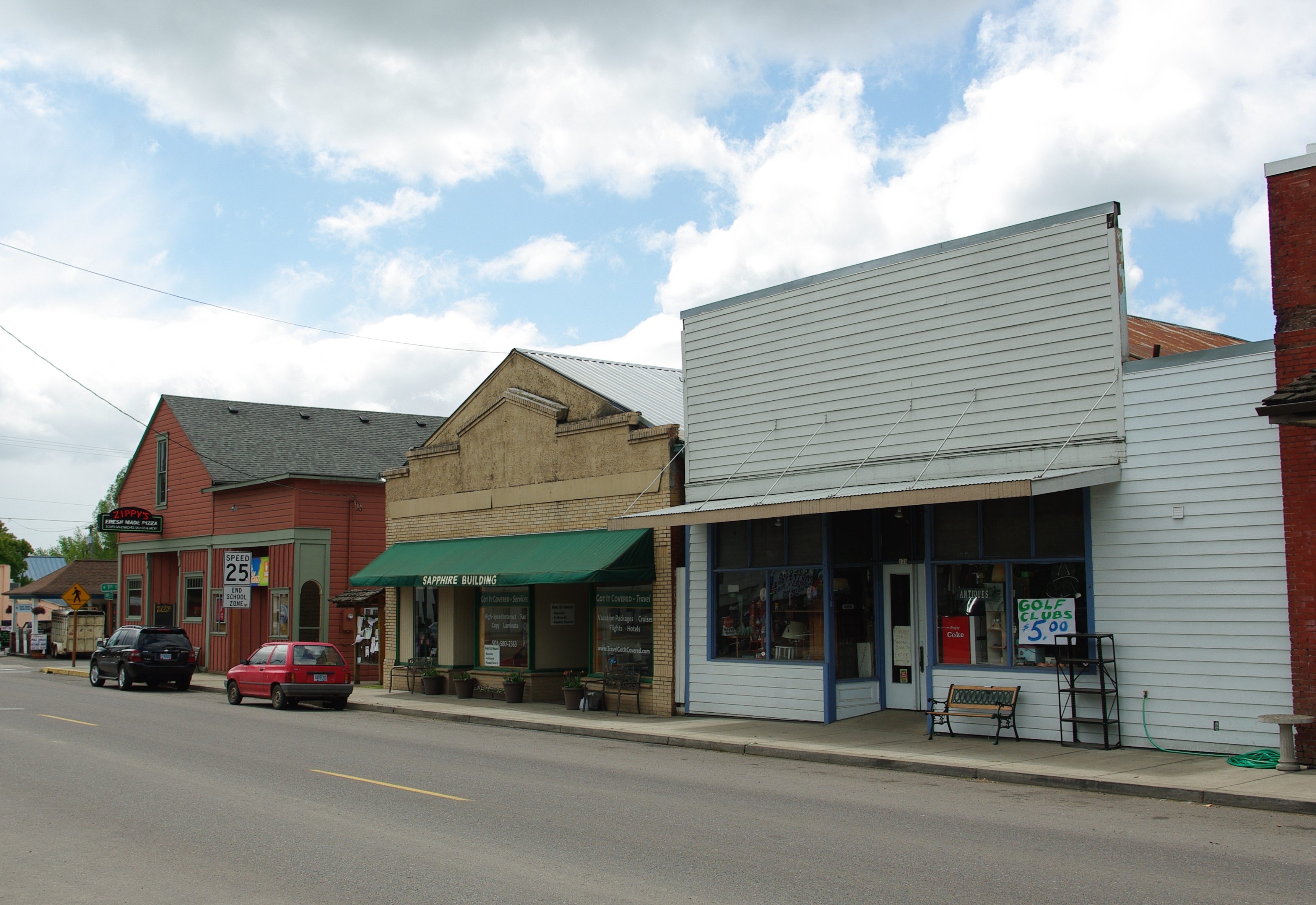 Buildings on Maple Street/OR 47 in Yamhill, Oregon, USA.